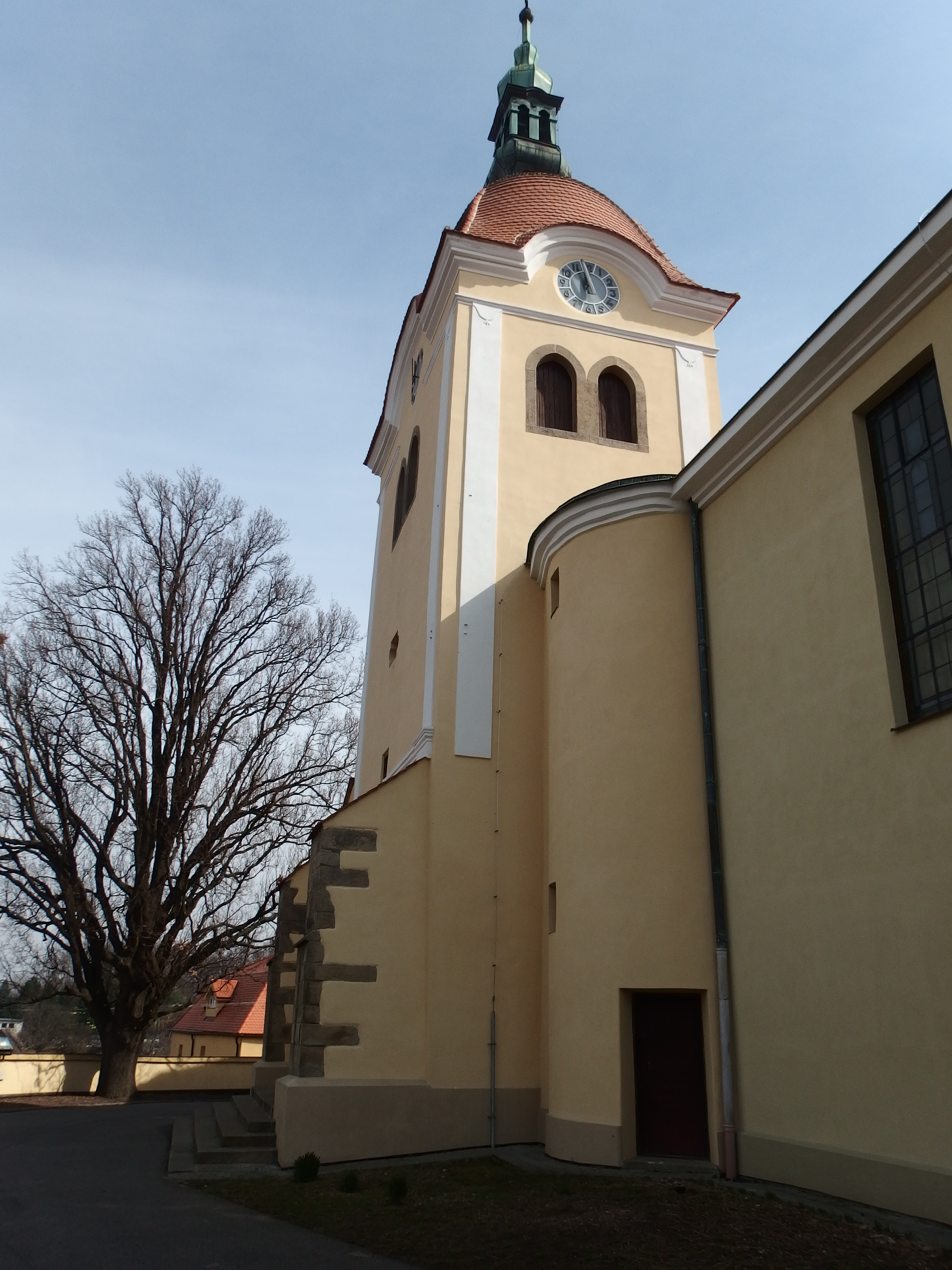 Zdounky, Kroměříž District, Czech Republic.